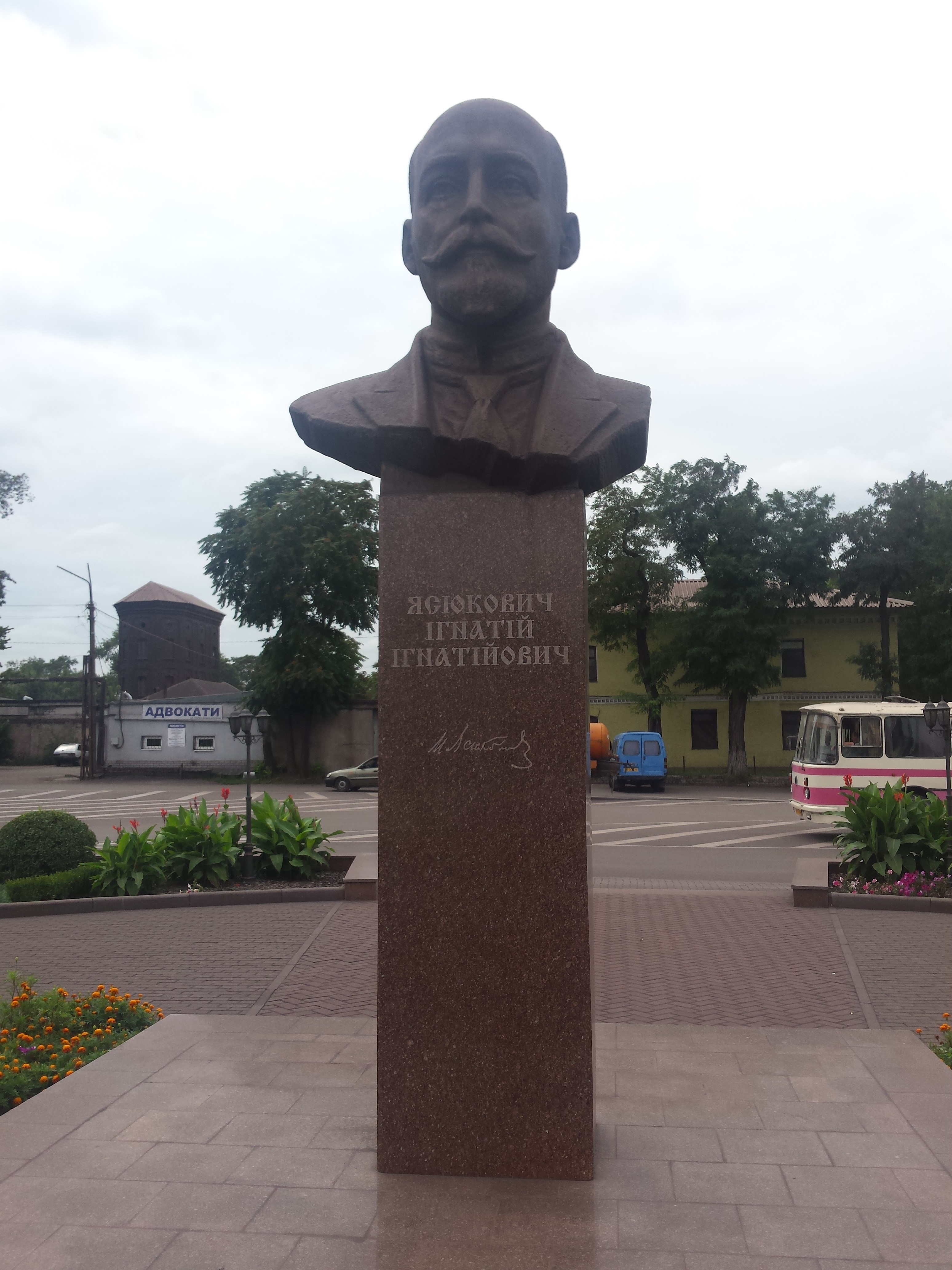 Bust of Ignacy Jasiukowicz in Kamianske, 2016.